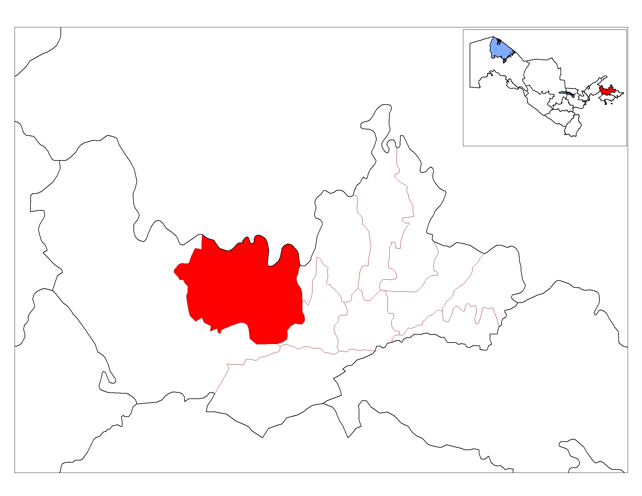 Location map of Chust District in Namangan Province